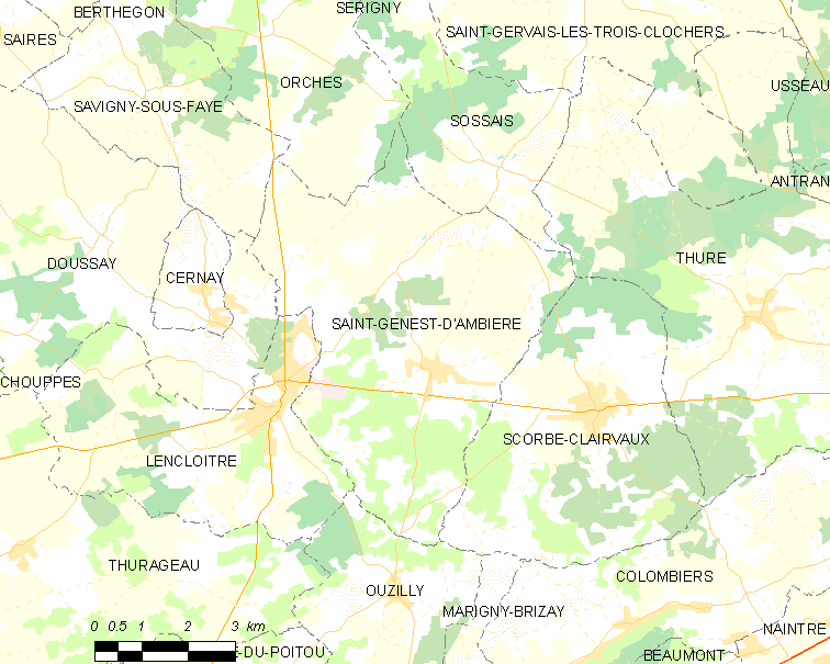 Map of French municipality Saint-Genest-d'Ambière